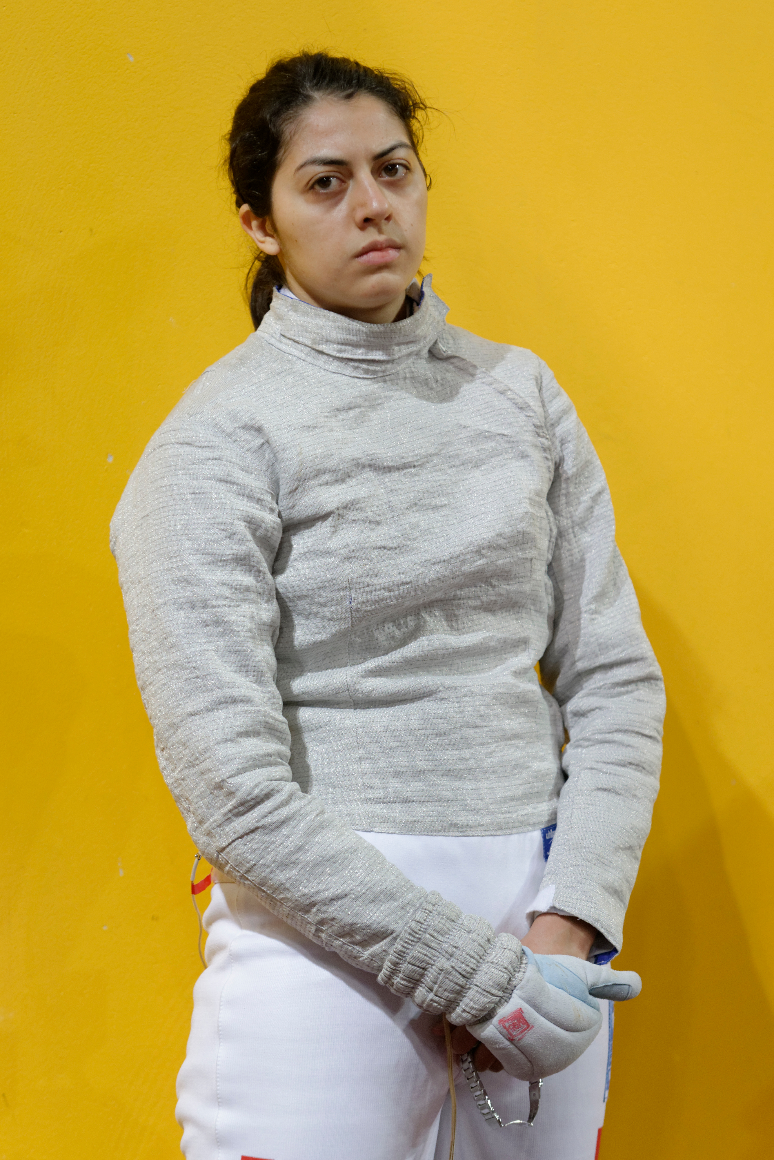 Tunisia's Azza Besbes at the Trophée BNP Paribas-Grand Prix FIE, first stage of the women's sabre World Cup, in Orléans.